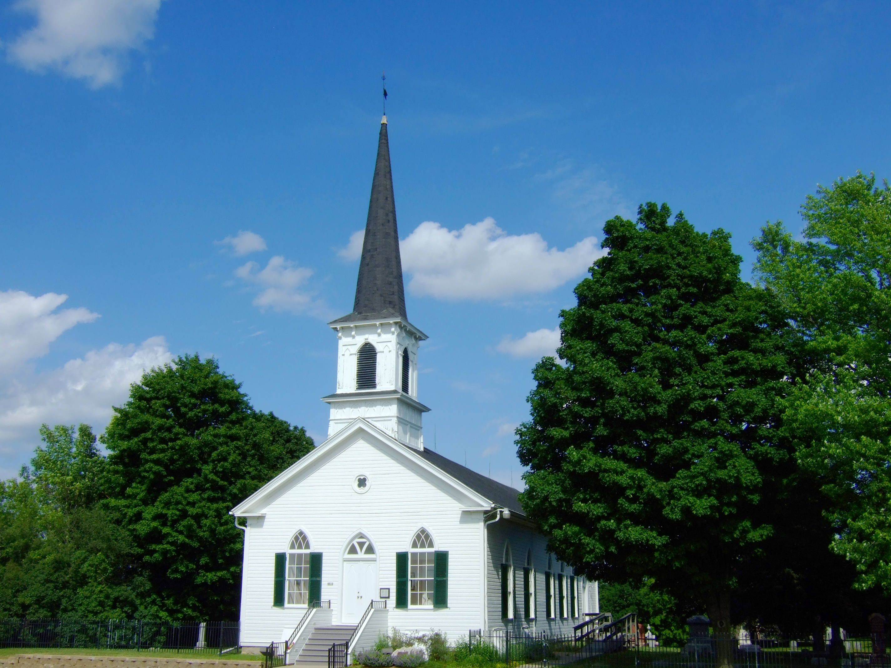 First Lutheran Church at the intersection of Old Sauk and Pleasant View Roads in Middleton, Wisconsin, was added to the National Register of Historic Places in 1988. German immigrants who came to the Middleton area in the 1840s formed a Lutheran congregation in 1852. In 1854, they built a log church just north of the present edifice. in 1866, a second church was built, this time with sawn lumber as well as a steeple and bell. In 1884, an addition was built including a new steeple and bell. The edifice served until 1947, when regular services were discontinued and the congregation dissolved. A dedicated group of volunteers maintains the sanctuary and the surrounding cemetery. A memorial service is held annually in the late summer to honor "the big church on the hill" founded by early settlers.